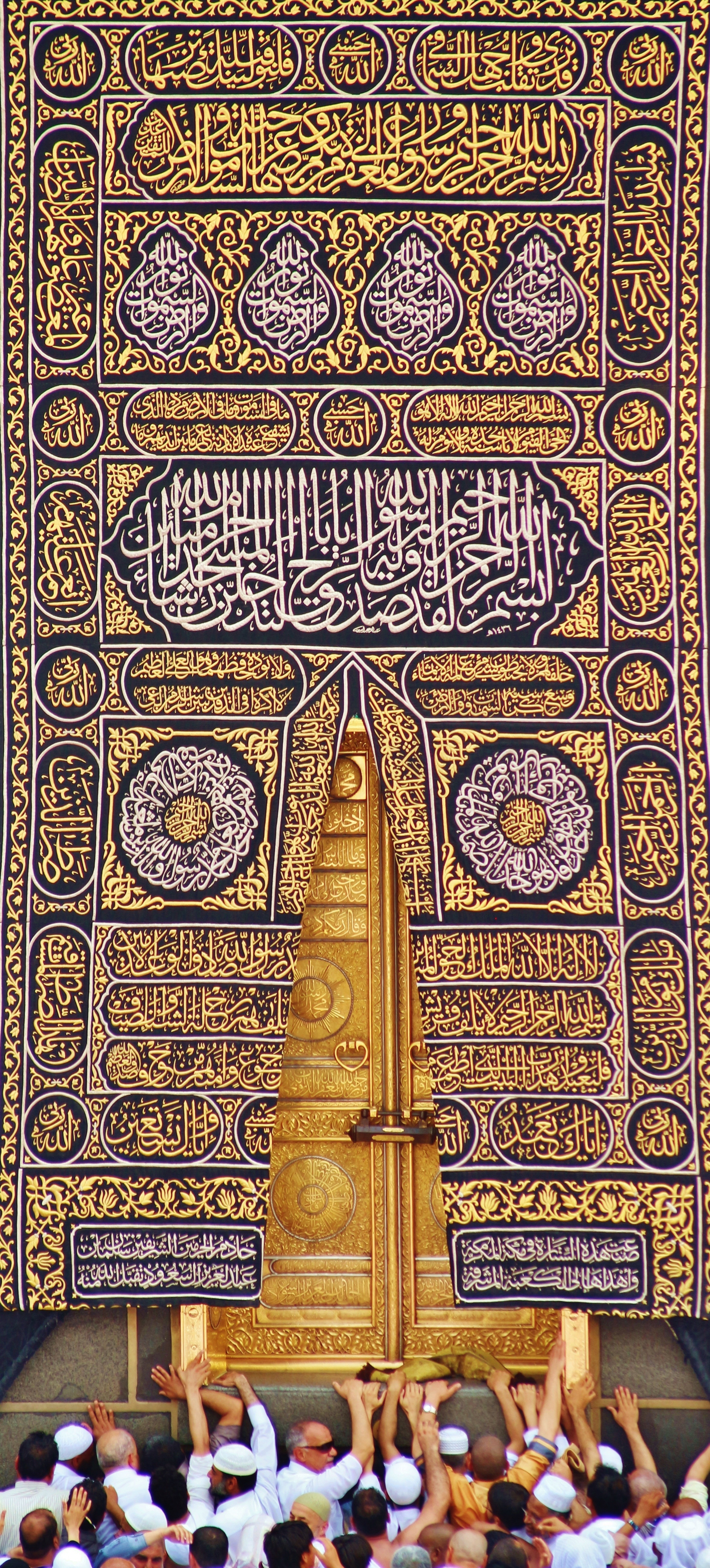 Kiswah of the Golden Door of Kaaba - 2016